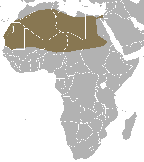 Fennec Fox range